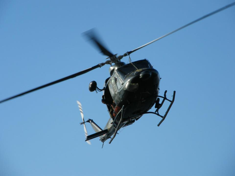 Bell 412 CAOP - Policia Federal do Brasil